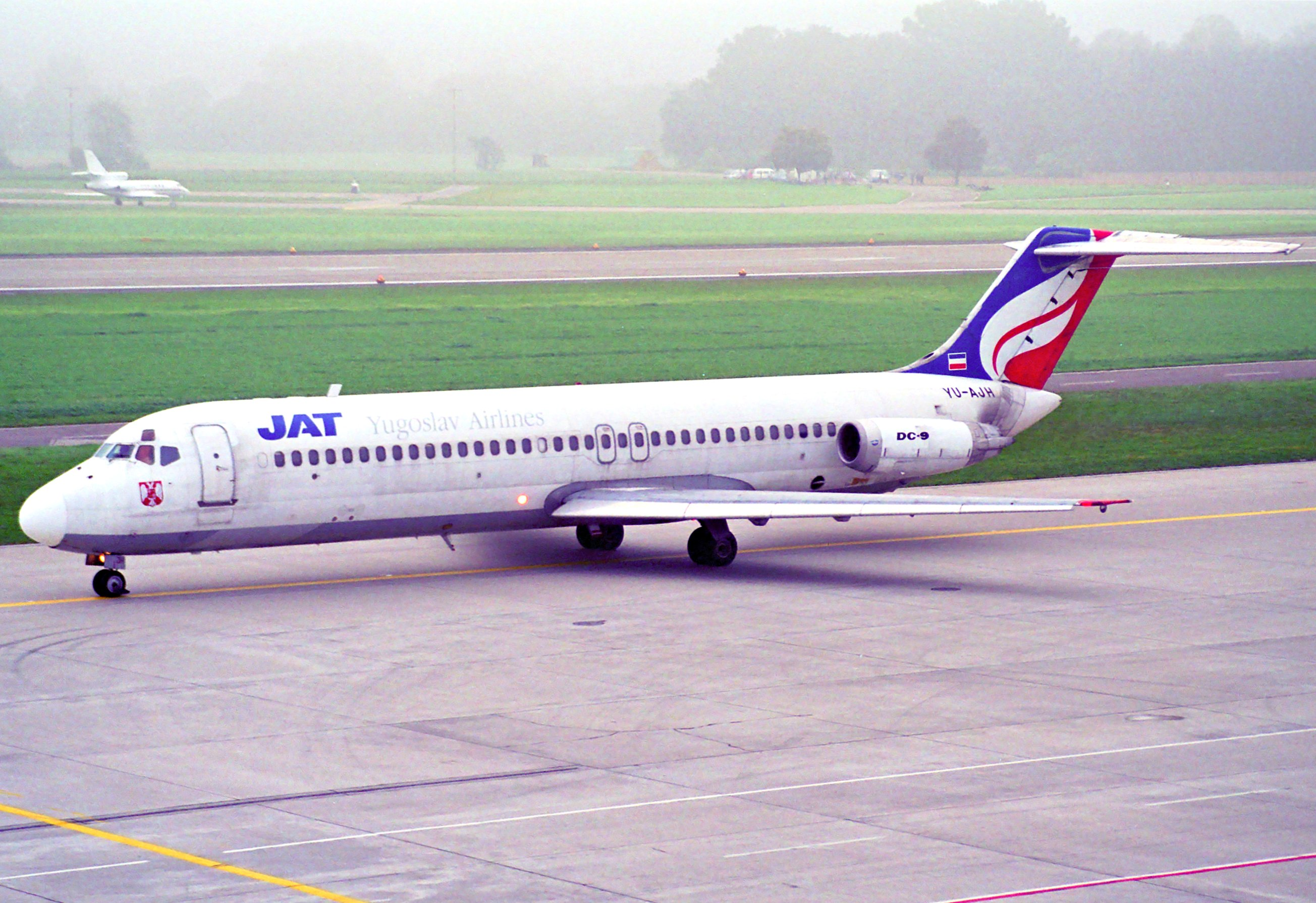 First flight: December 20, 1972... 12/02/1973 JAT YU-AJH 12/ 1998 Bellview Airlines YU-AJH 2003 Sosoliso Airlines 5N-BFD named Rose of Enugu, crashed on December 10, 2005... Sosoliso Airlines Flight 1145 was a scheduled flight between the Nigerian cities of Abuja (ABV) and Port Harcourt (PHC). At about 14:08 local time (13:08 UTC) on 10 December 2005, Flight 1145 from Abuja crash-landed on the runway at Port Harcourt International Airport. The plane, a McDonnell Douglas DC-9-32 with 110 people on board, burst into flames. Immediately after the crash, seven survivors were recovered and taken to hospitals, but it has since been reported that four of those survivors have died in hospital care, leaving three survivors, two of whom were flown to South Africa. In the end, two people survived.